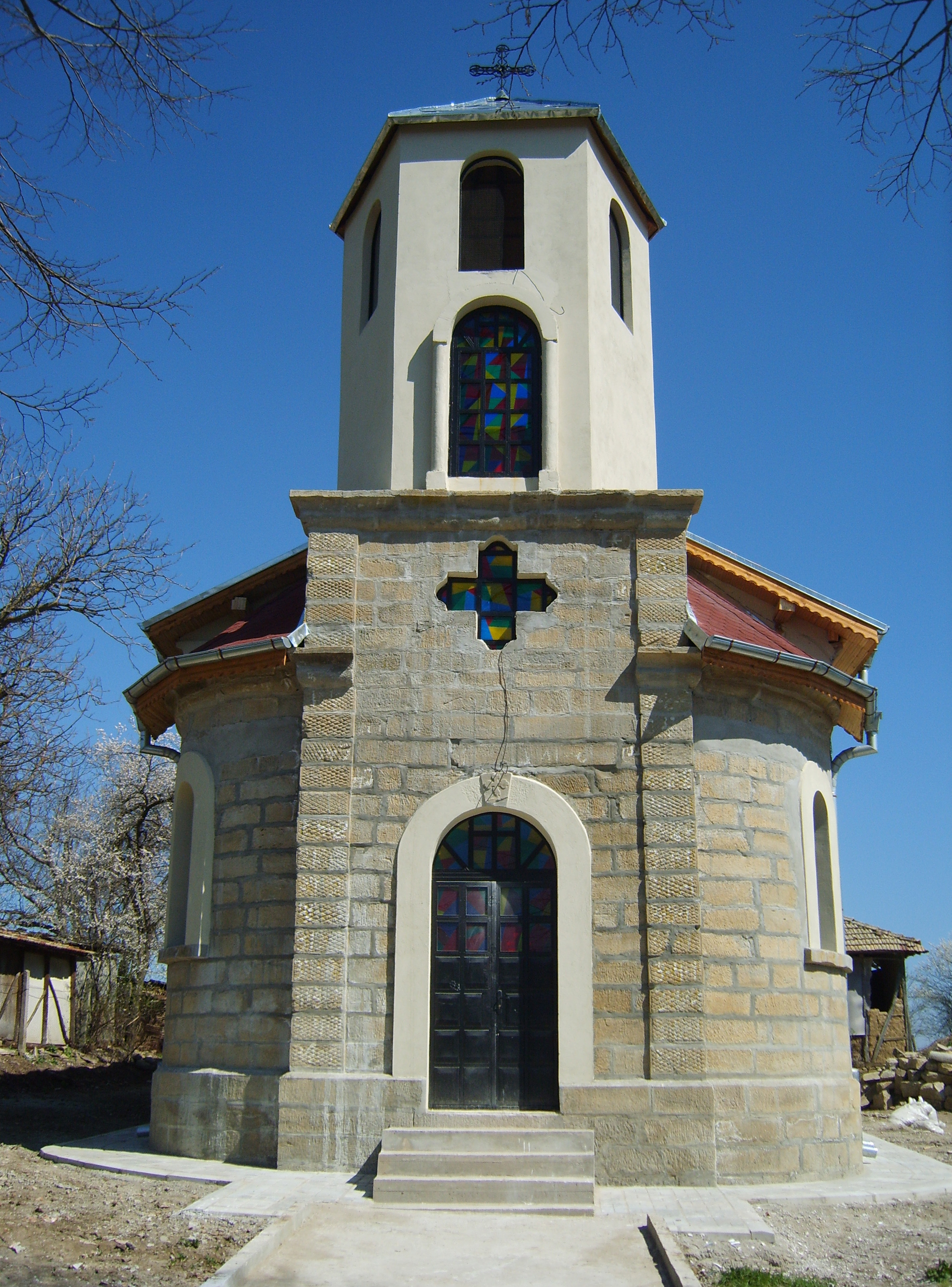 Church in Manastirica